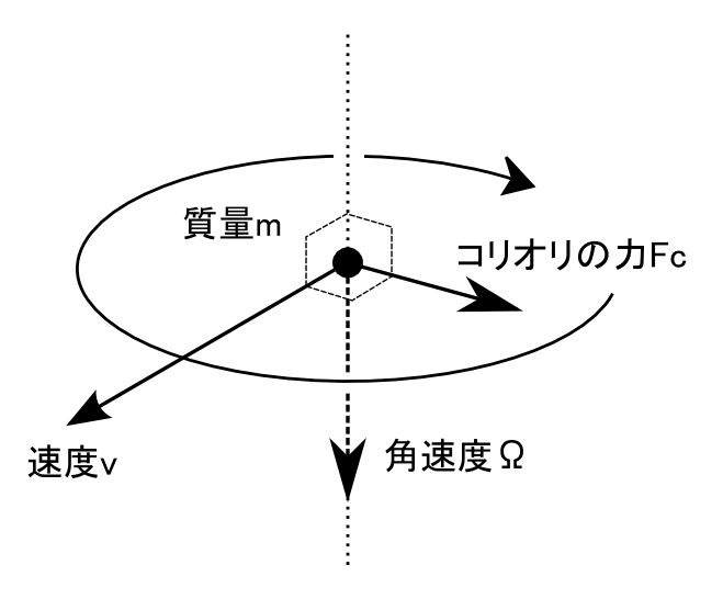 Coriolis Force